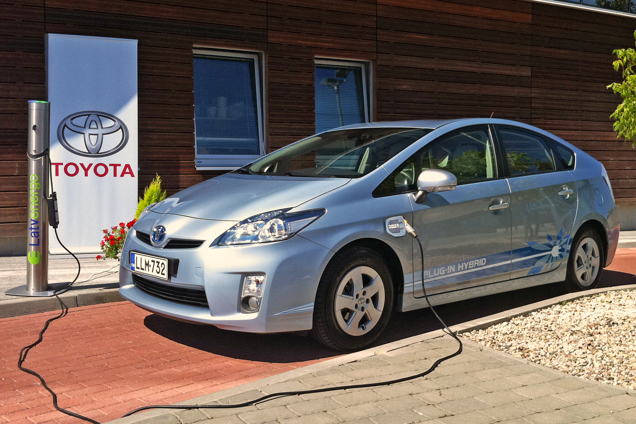 Demonstration (pre-production) Toyota Prius Plug-in Hybrid in Poderaa, Riga, Riga, LV, 2010